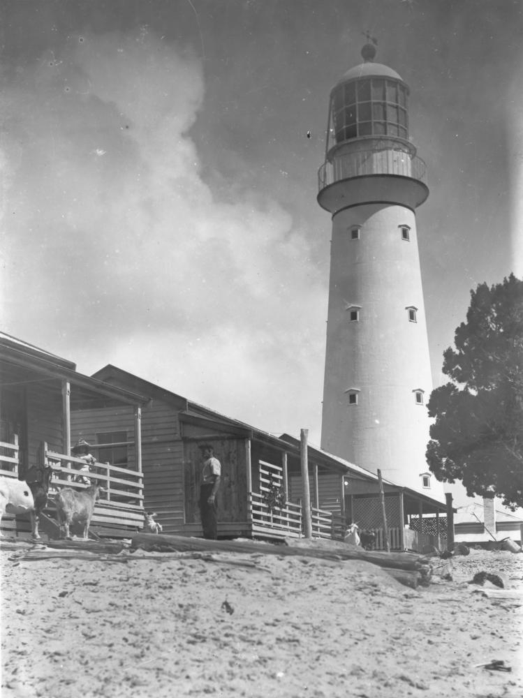 Sandy Cape lighthouse seen from the front of the lighthouse keepers' cottages, Fraser Island, 1907 Lighthouse assistants' cottages in the foreground and the superintendent's house behind.